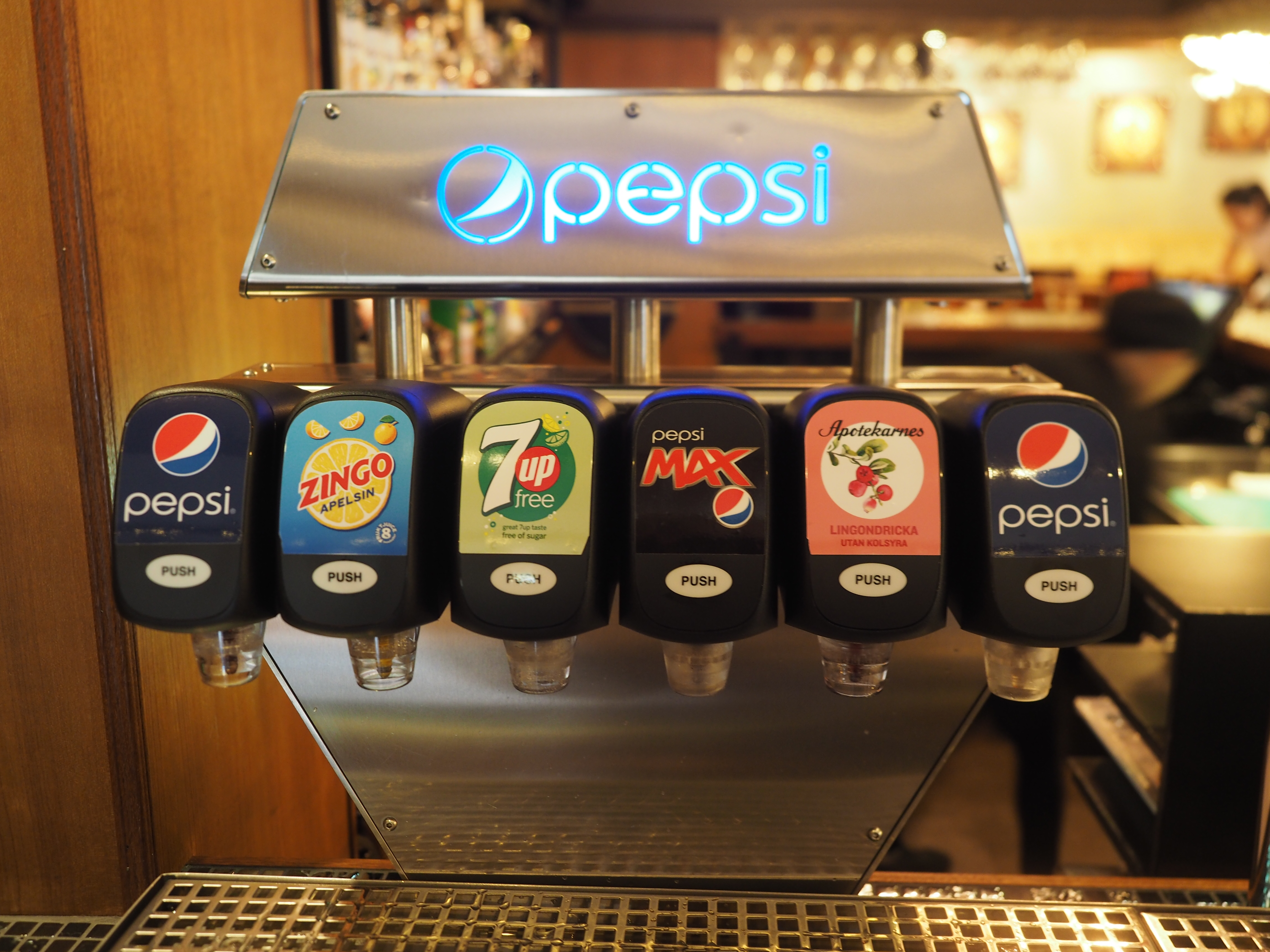 Soft drink taps at restaurant Thai Silk, Borås, Sweden. Available taps are, from left to right: Pepsi, Zingo orange soda, 7 Up, Pepsi Max, lingonberry juice, and Pepsi again.